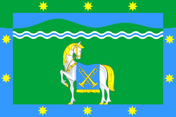 Flag of Kurganinsky rayon, Krasnodar Territory, Russia